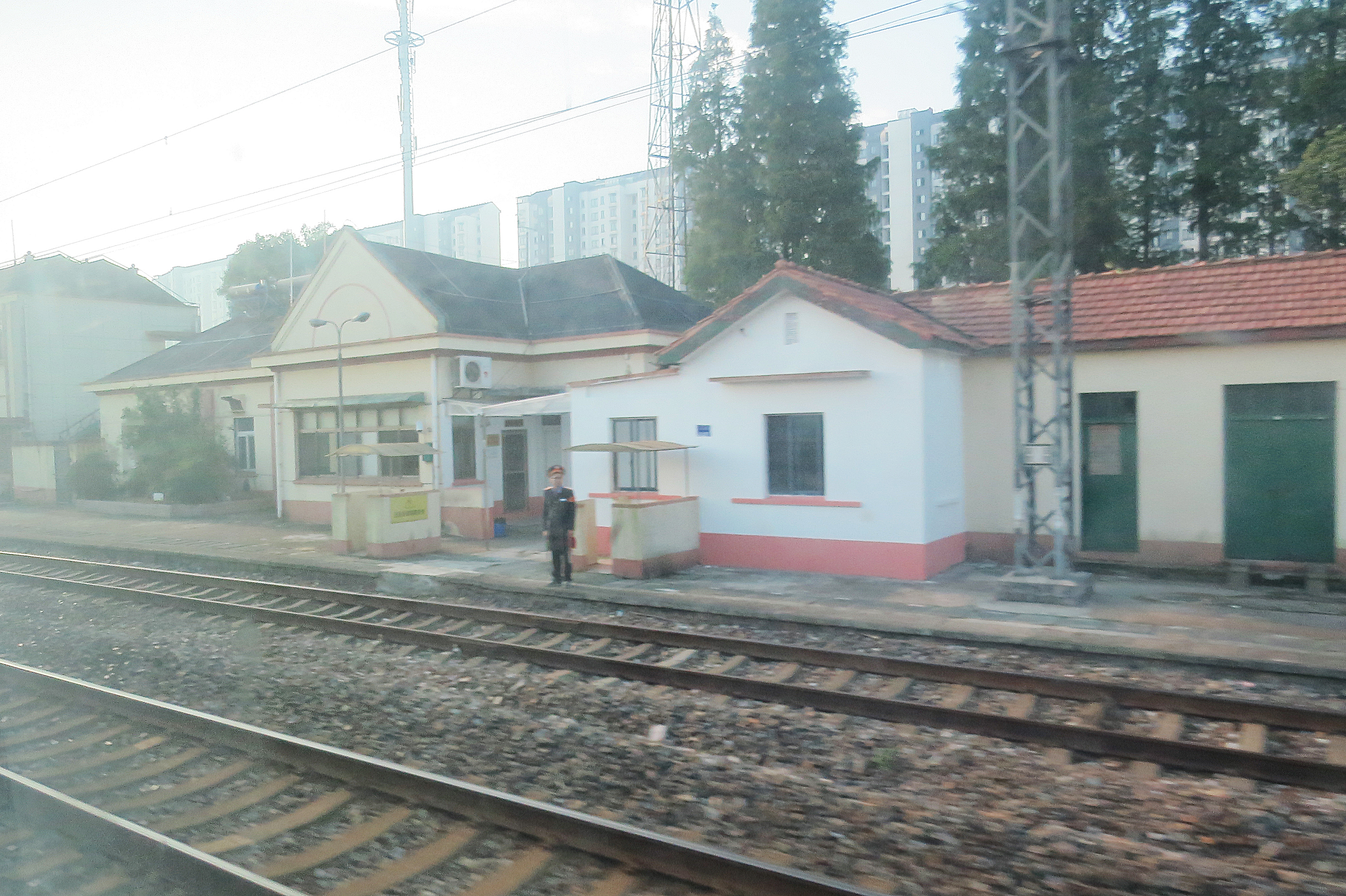 When the train Z4013 was passing Kunshan...